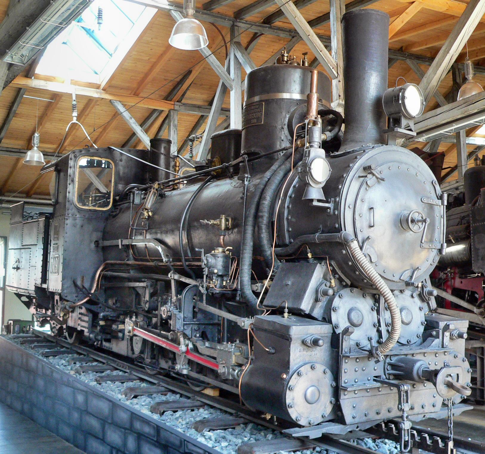 Cog wheel locomotive III Nr. 719 in the Lokwelt Freilassing, Germany. Build in 1908